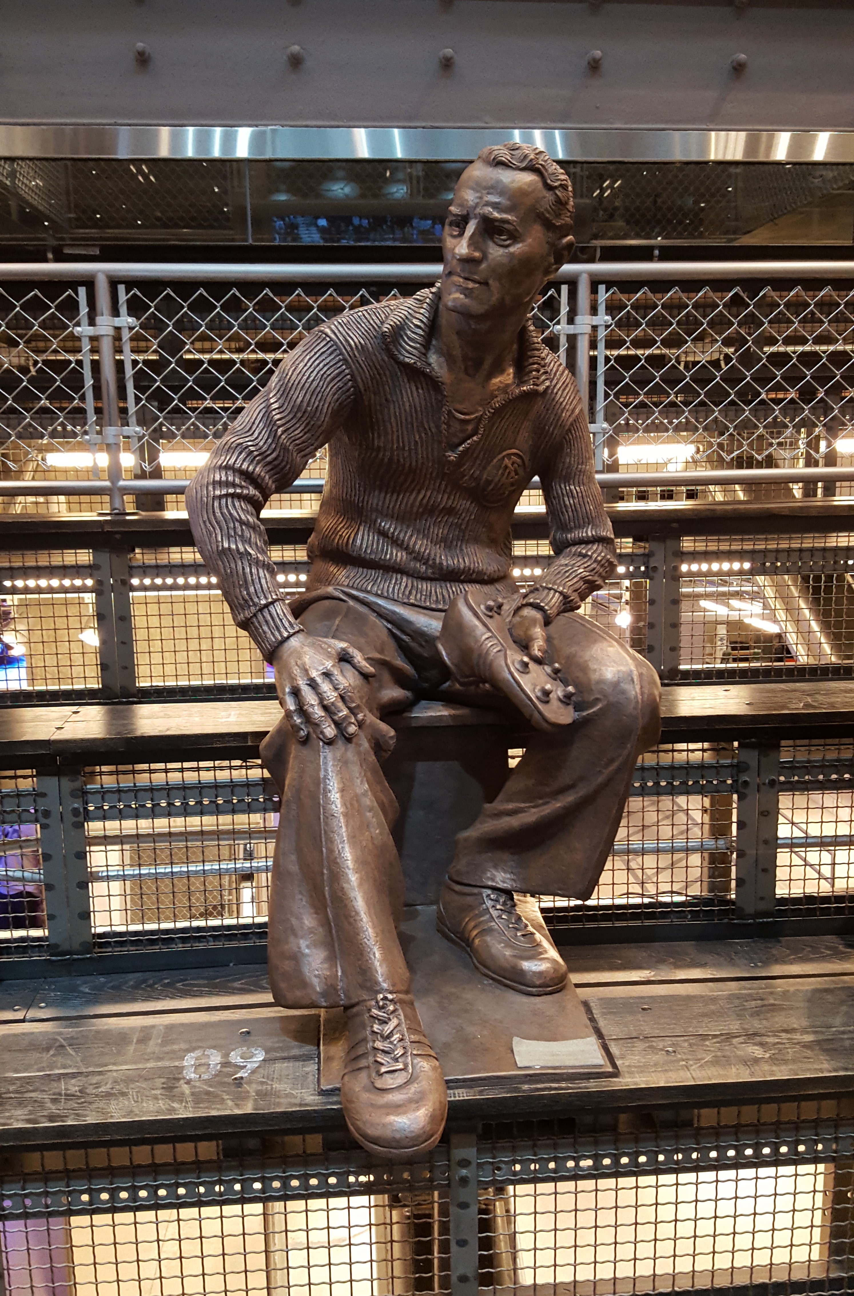 Statue of Adi Dassler, sculptor Josef Tabachnyk, New York City, Flagship Store Adidas, 2016